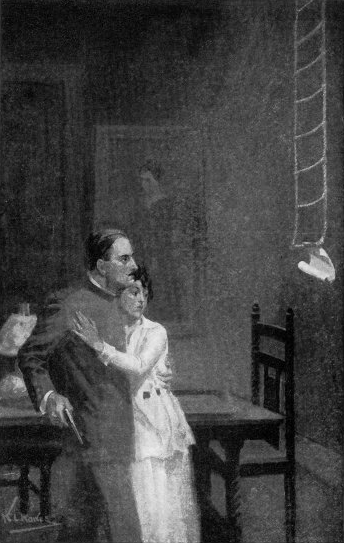 Illustrations from the book, The Golden Triangle (front page), written by Maurice Leblanc, taken from English translation published in 1917 in USA, illustrated by unknown author. Oryginal text